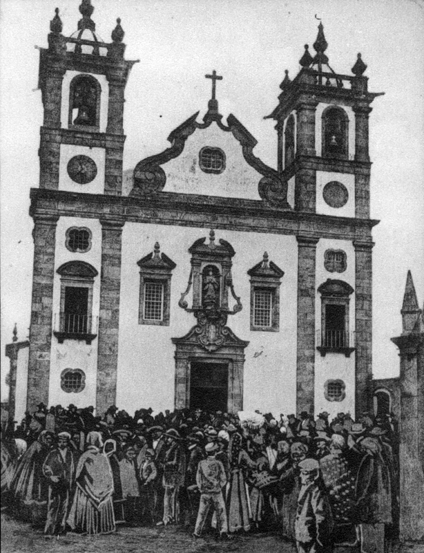 Main Church of Póvoa de Varzim, the oldest known picture of it